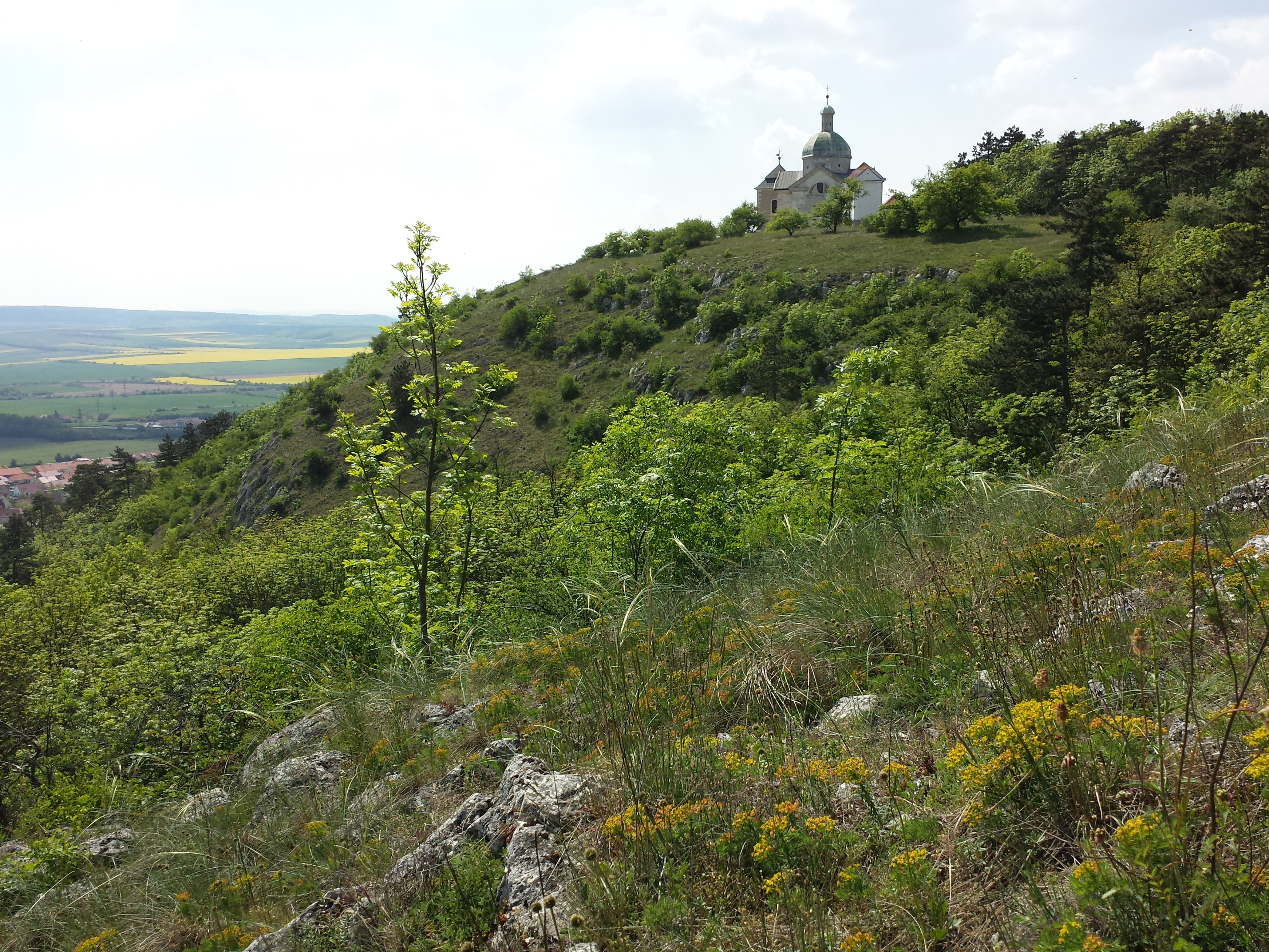 Location: Svatý kopeček, Mikulov, Jihomoravský kraj, Czech Republic - 363 m a.s.l. View from an eastward direction